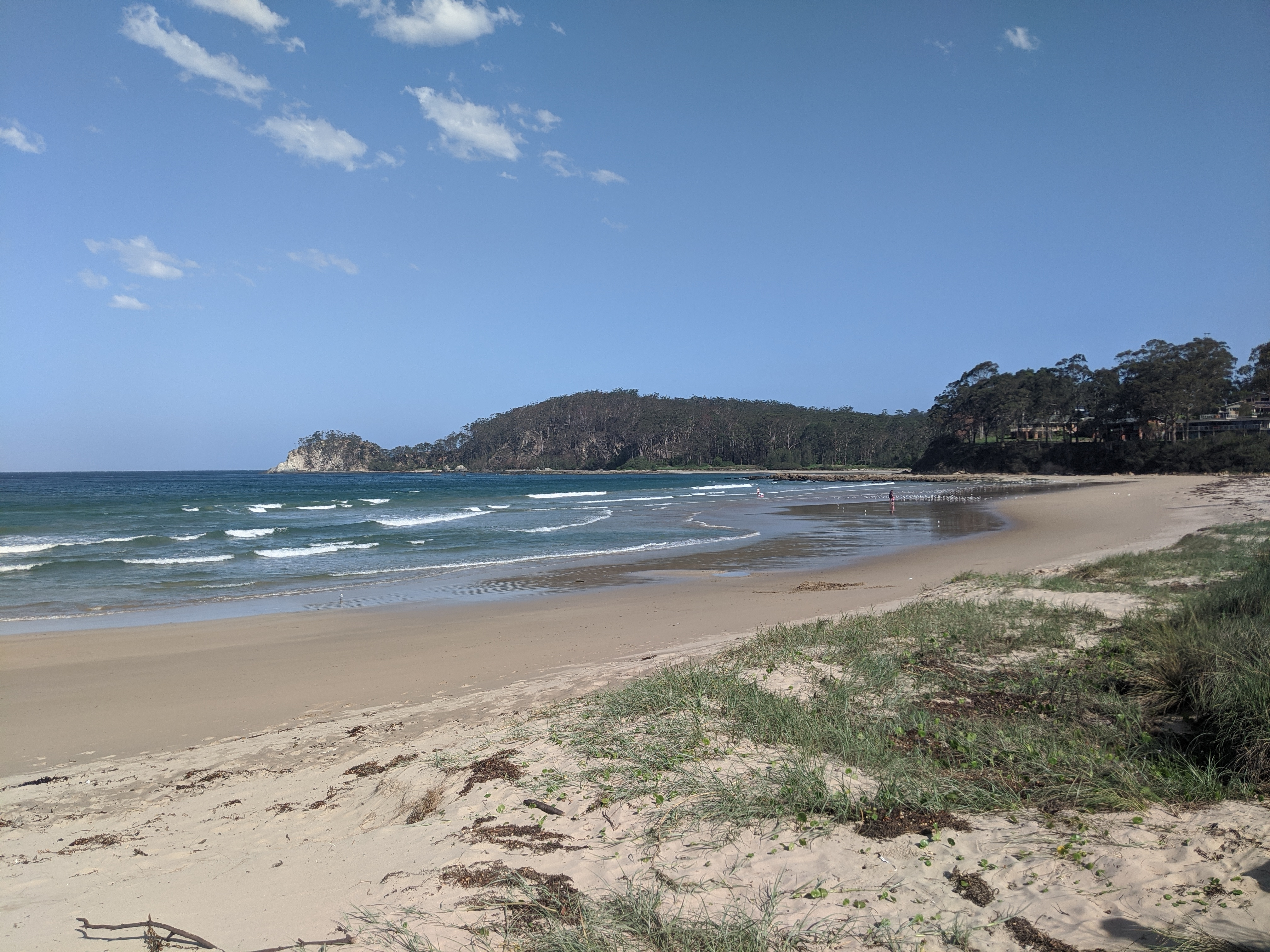 Surf Beach, Surf Beach, New South Wales, 2020